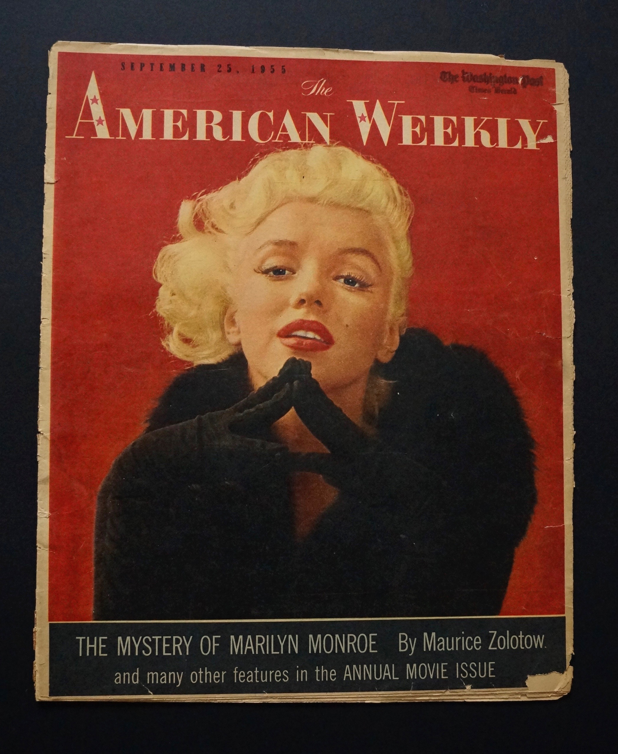 American Weekly 9-25-1955 miss monroe